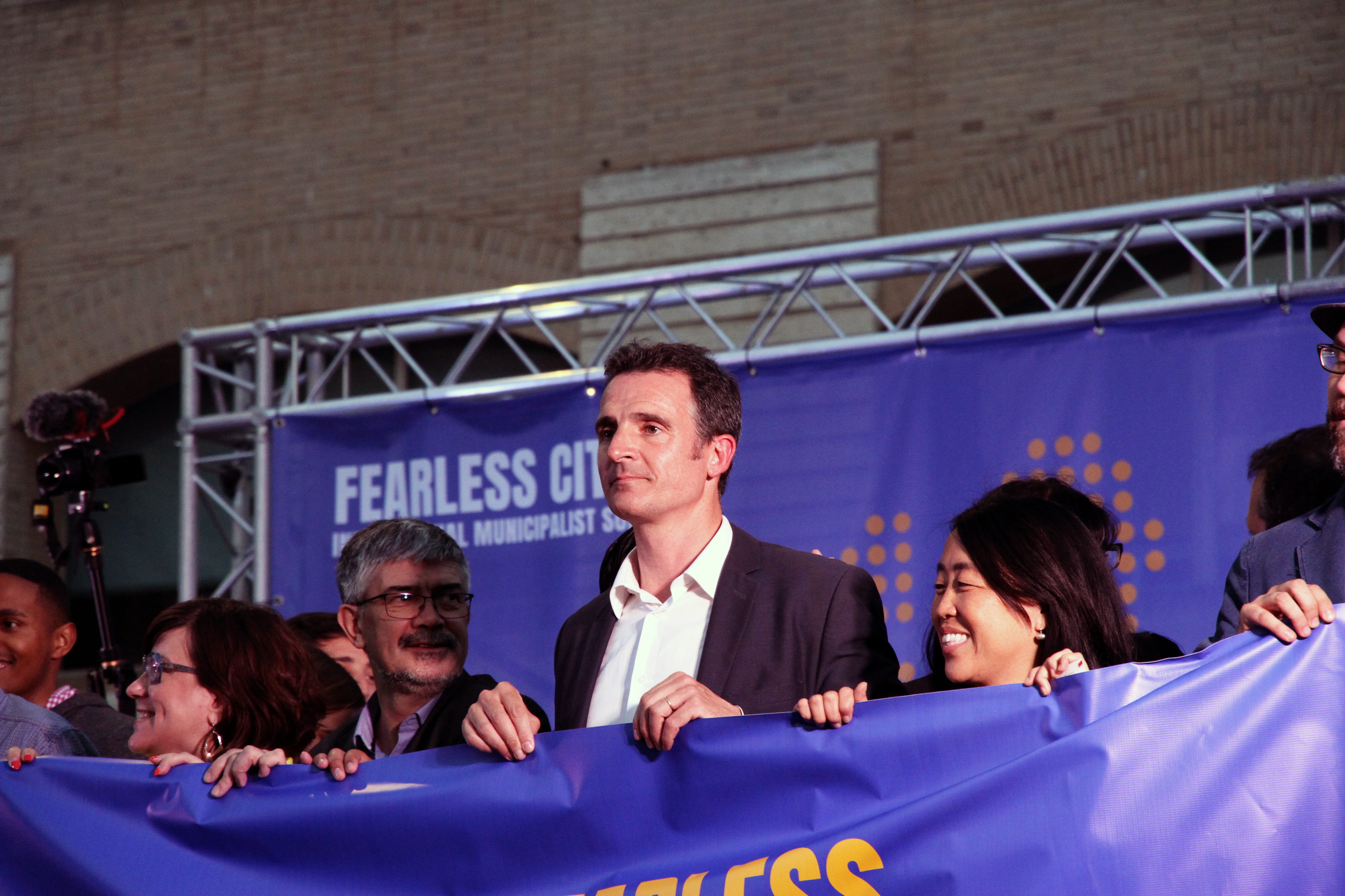 09th June 2017. Plaça dels Àngels, Barcelona. Fearless Cities: global networks of refuge and hope. Mayors and local leaders come together to share their vision of what it means to be a “fearless city”, from resisting state authoritarianism and combatting the far right to fighting speculation and guaranteeing the right to the city.